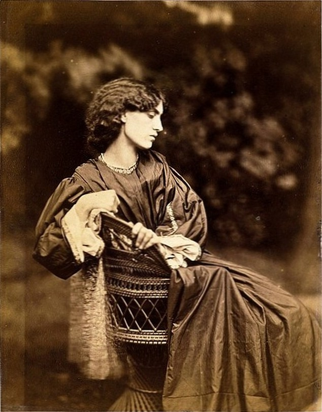 Jane Morris (née Jane Burden; 1839–1914), photographed by John Robert Parsons, 7 June 1865, posed by Dante Gabriel Rossetti, printed by Emery Walker Ltd. "On 7 June 1865. Two were taken indoors, the rest outside in the garden of Dante Gabriel Rossetti's ( 16 ) Cheyne Walk house, in Chelsea."(